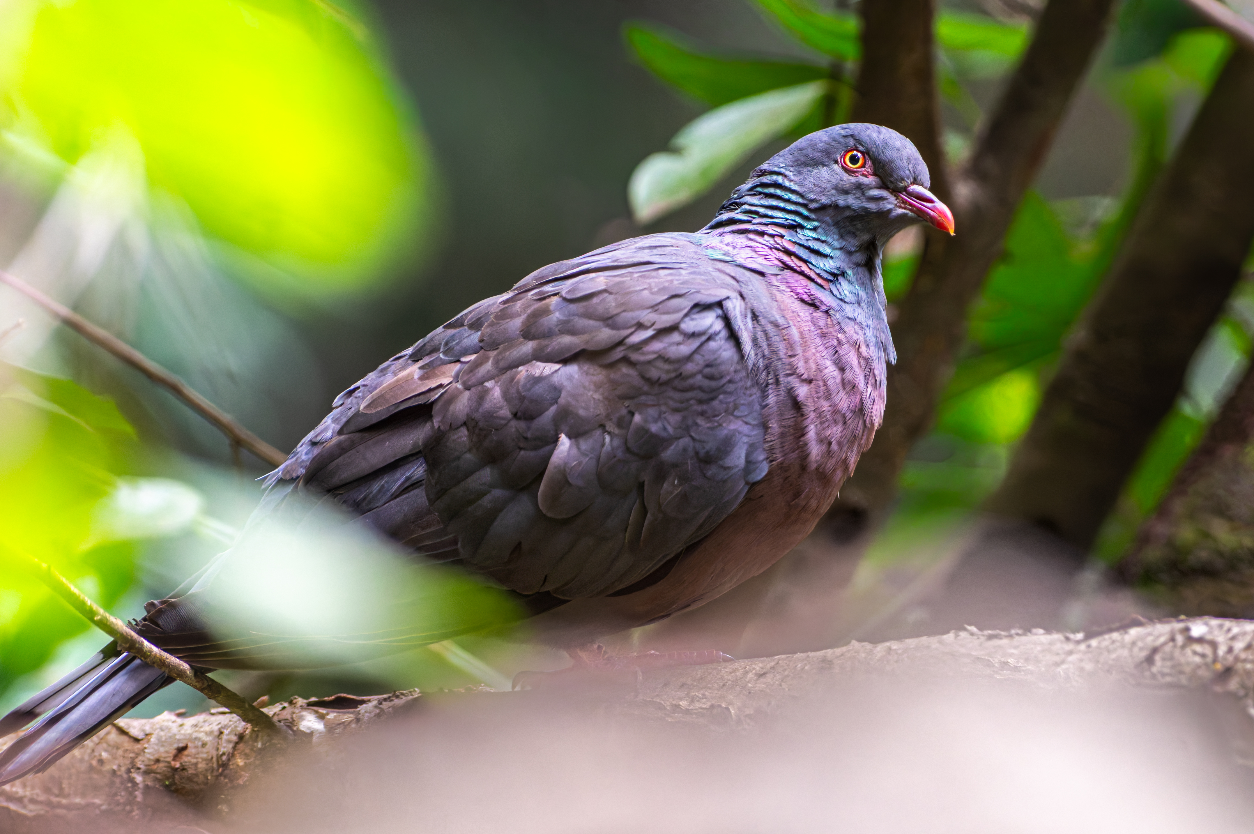 Bolle's pigeon (Columba bollii) on La Palma